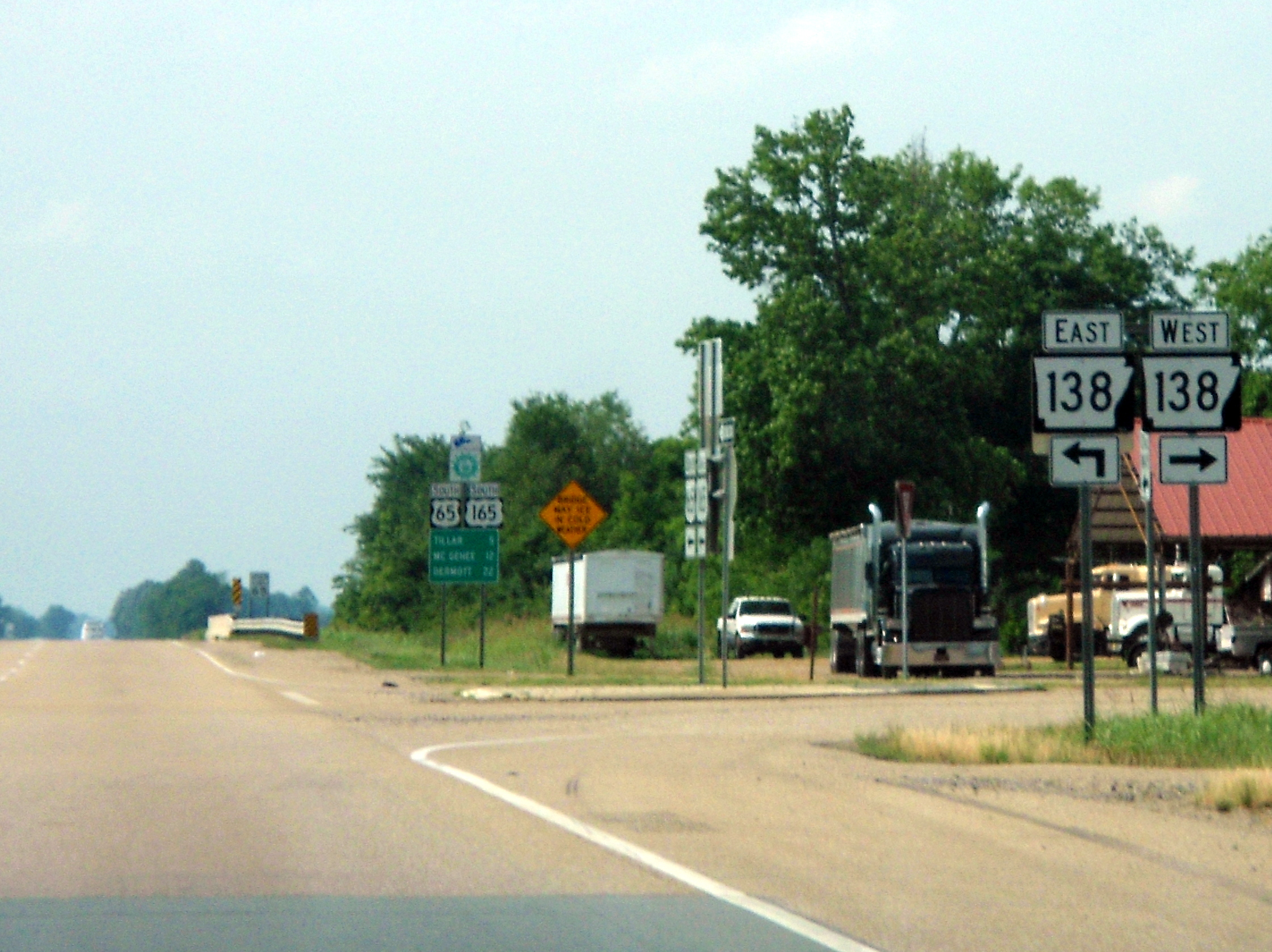 Highway 138 intersects US 65/US 165 south of Dumas, Arkansas